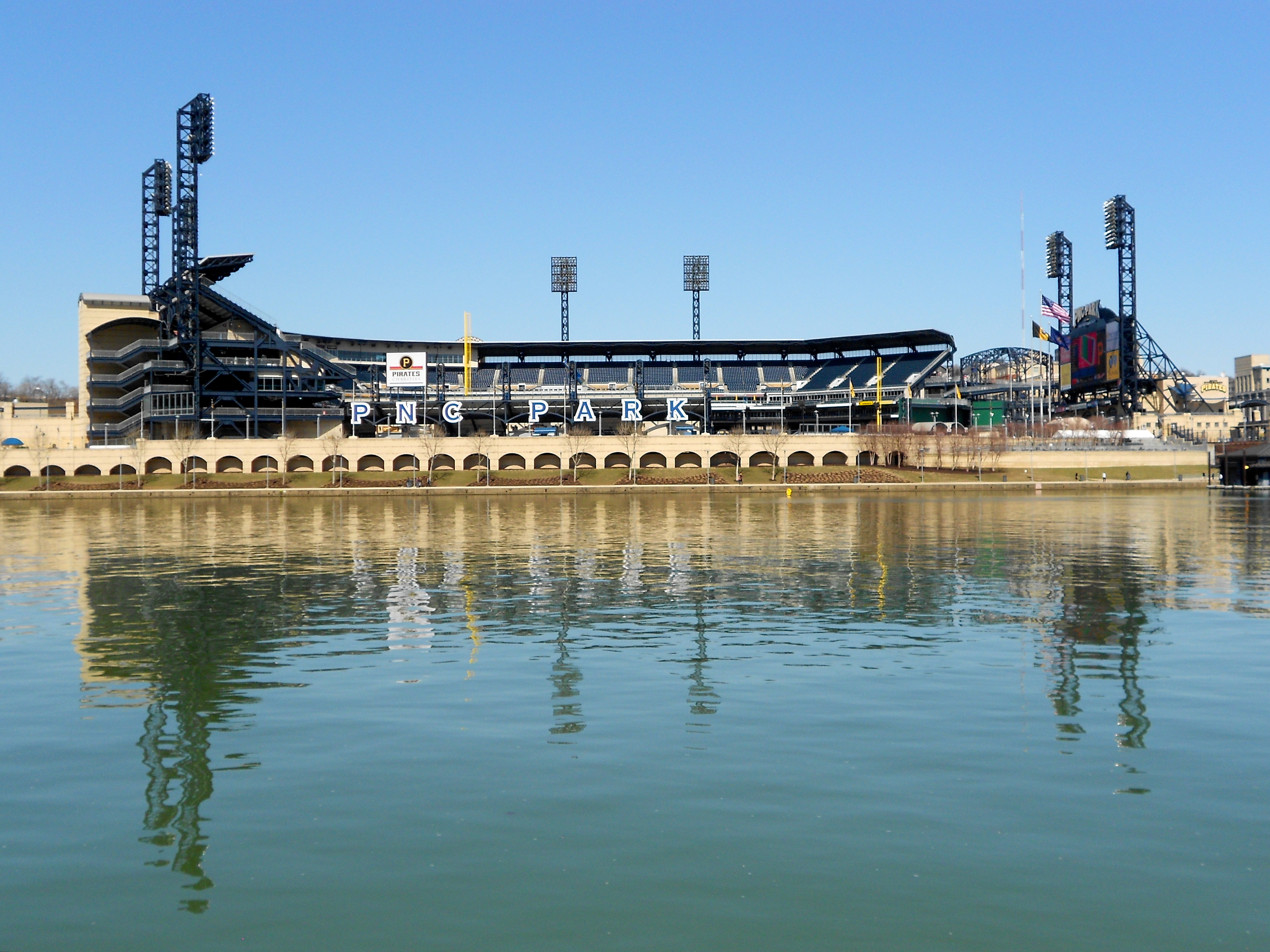 PNC Park in Pittsburgh, home of the "Pirates" across the Allegheny River from Point State Park (or very close to it)